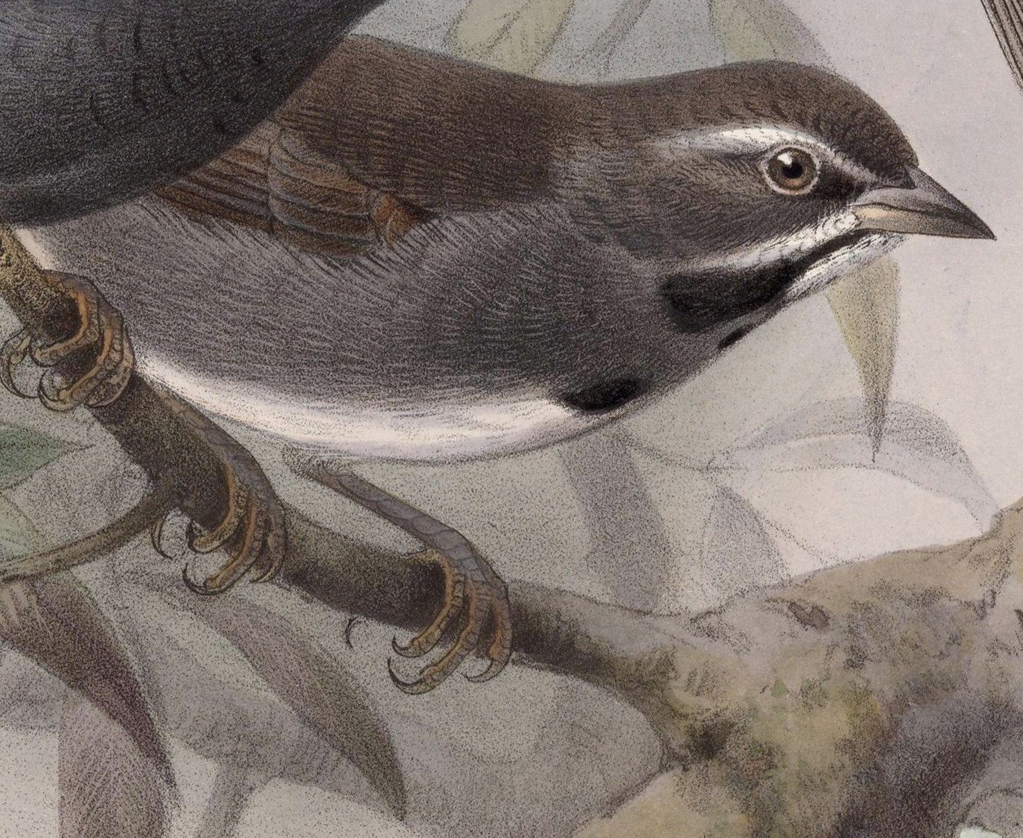 « Zonotrichia quinquestriata » = Amphispiza quinquestriata (Five-striped Sparrow)